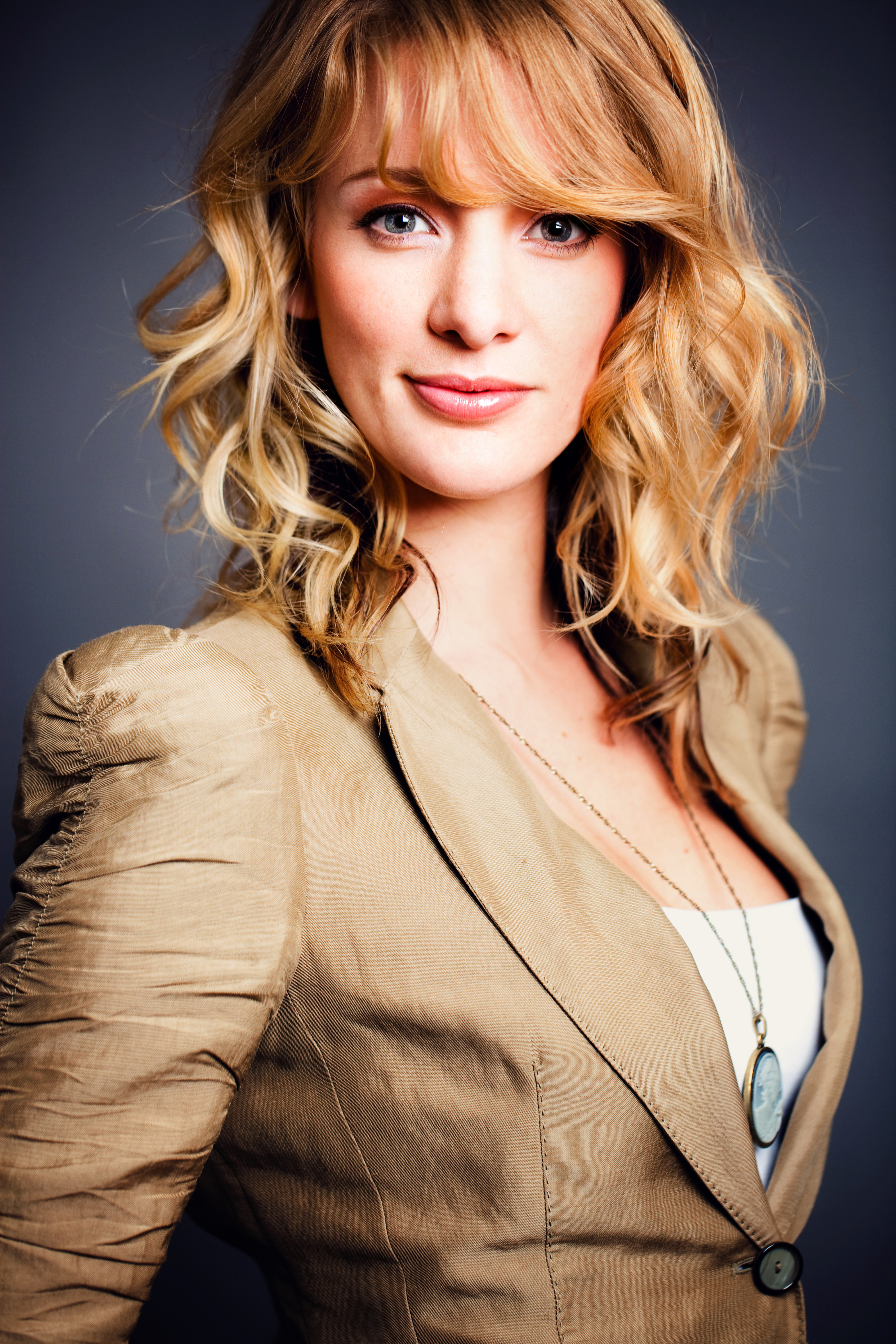 A picture of Noortje Herlaar